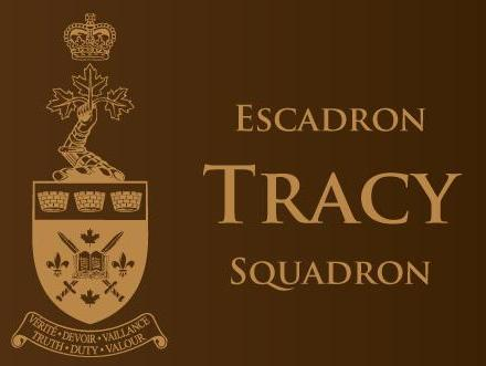 Tracy Squadron, Royal Military College Saint-Jean, Saint-Jean-sur-Richelieu, Quebec, Canada